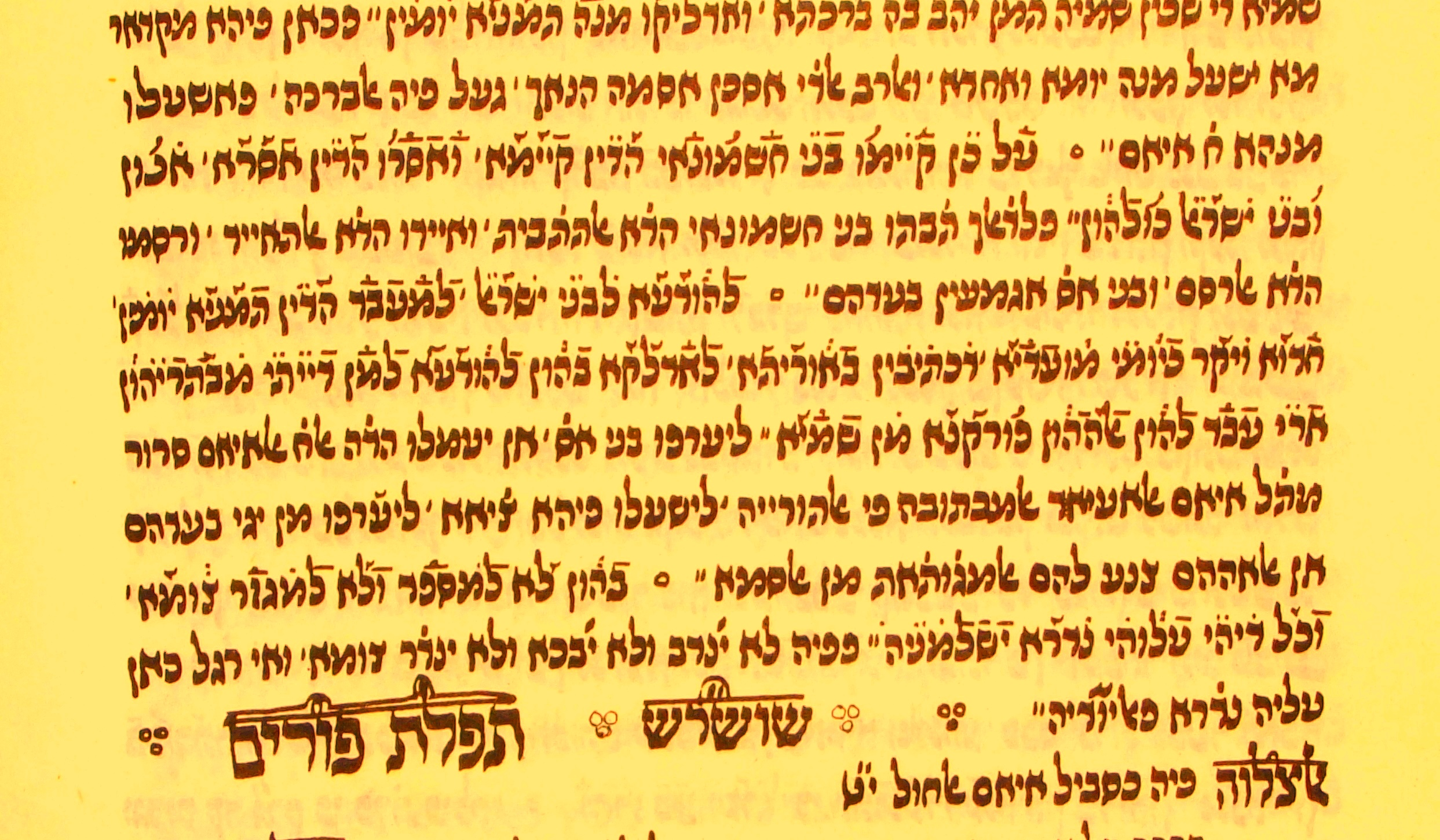 Section shows the concluding words of the Aramaic Scroll of Antiochus, with an Arabic translation, and Babylonian supralinear punctuation, from an old Yemenite Siddur